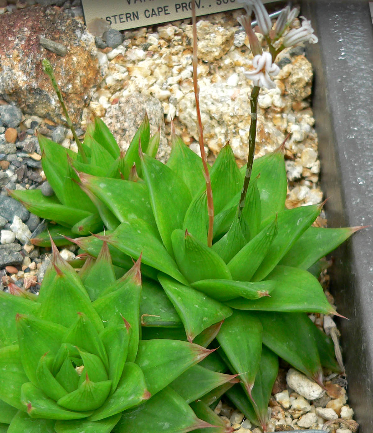 Photo of Haworthia cymbiformis var. setulifera at the University of California Botanical Garden